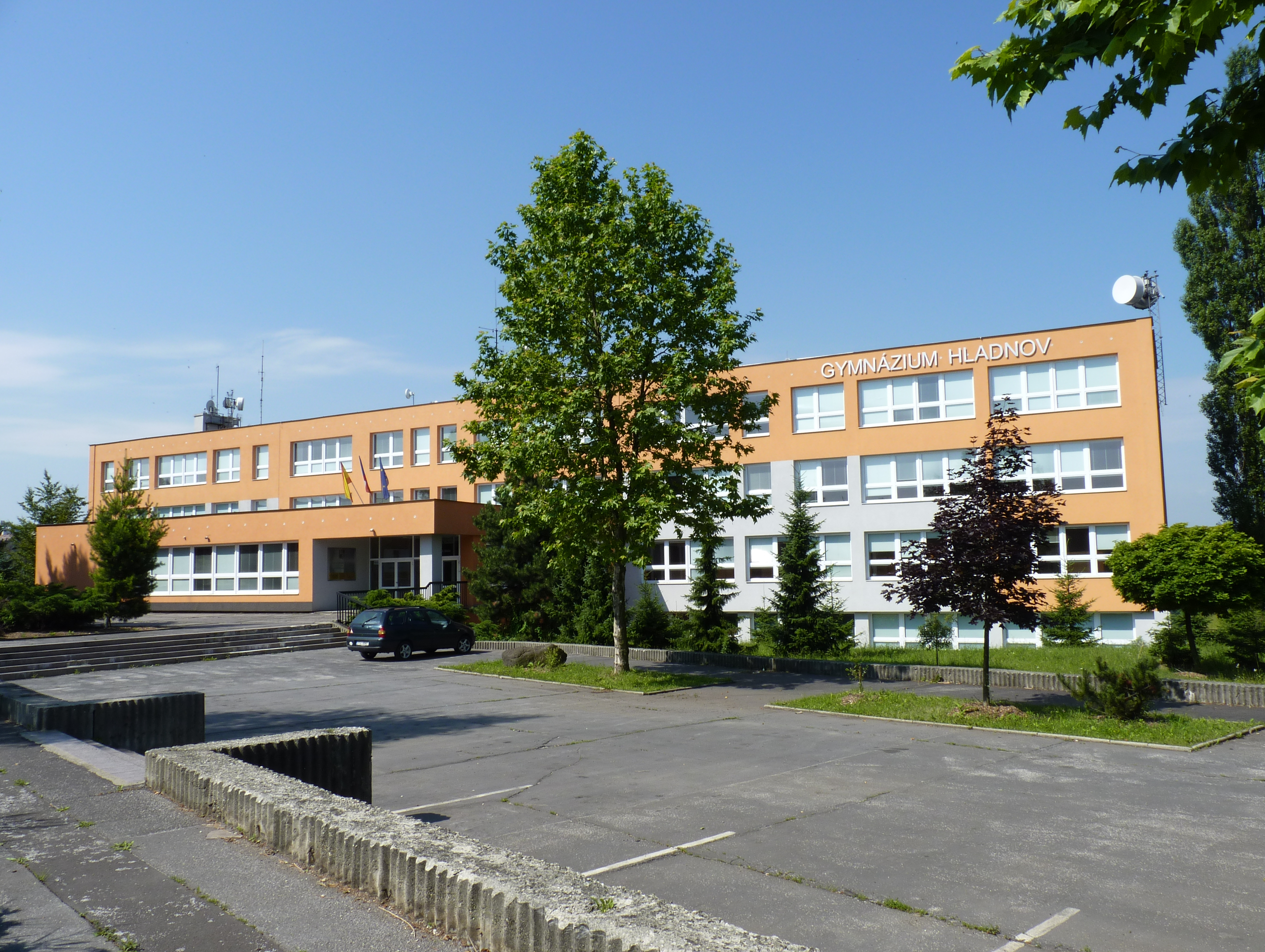 Slezská Ostrava. Ostrava-city District, Moravian-Silesian Region, Czech Republic